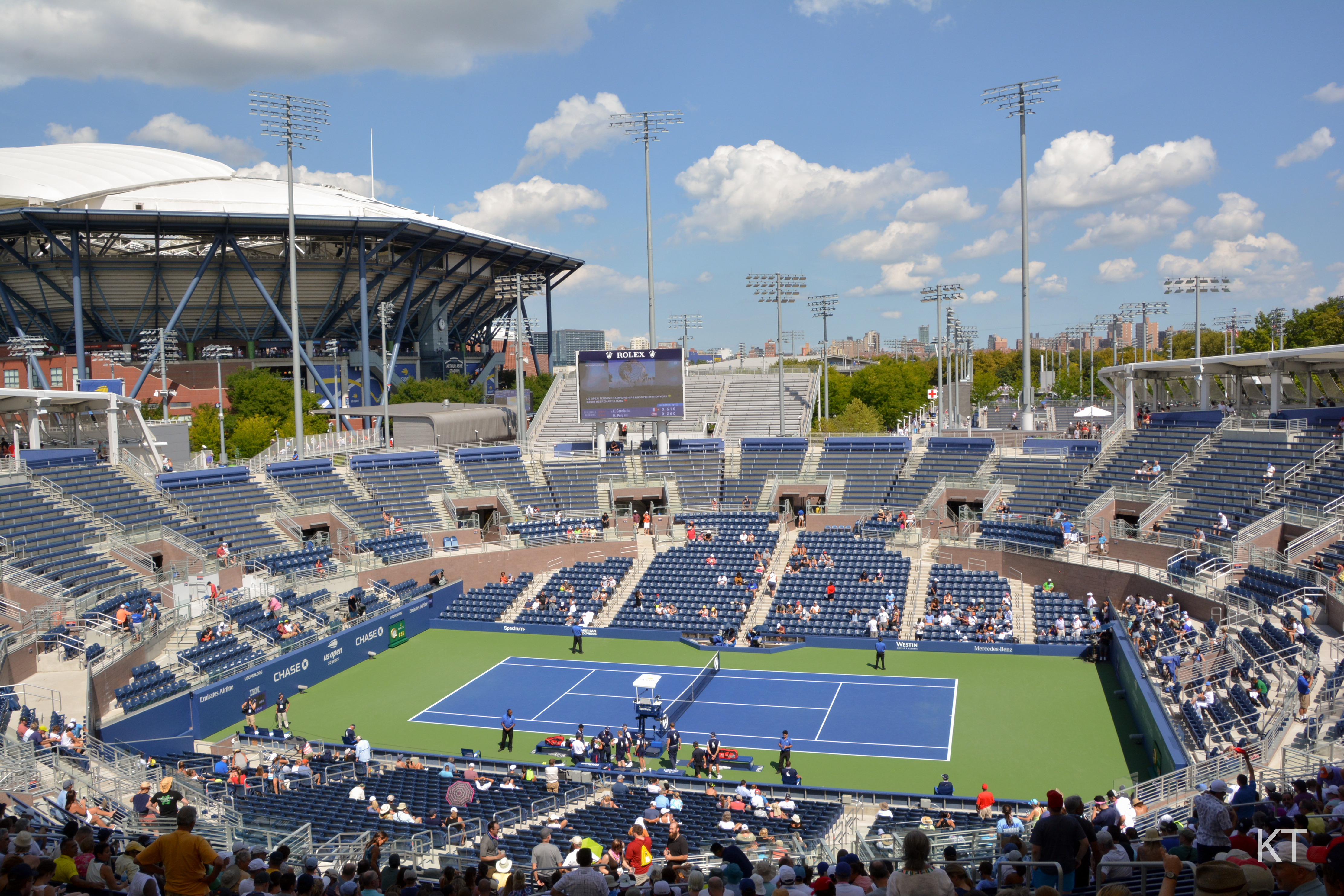 Day 4 of US Open 2018.